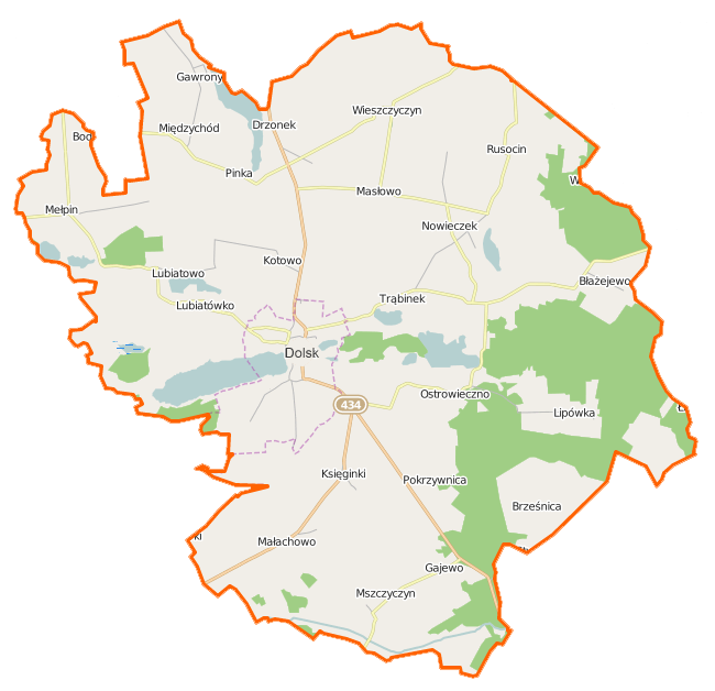 Map of Gmina Dolsk, Poland This map of Dolsk (gmina) was created from OpenStreetMap project data, collected by the community. This map may be incomplete, and may contain errors. Don't rely solely on it for navigation.